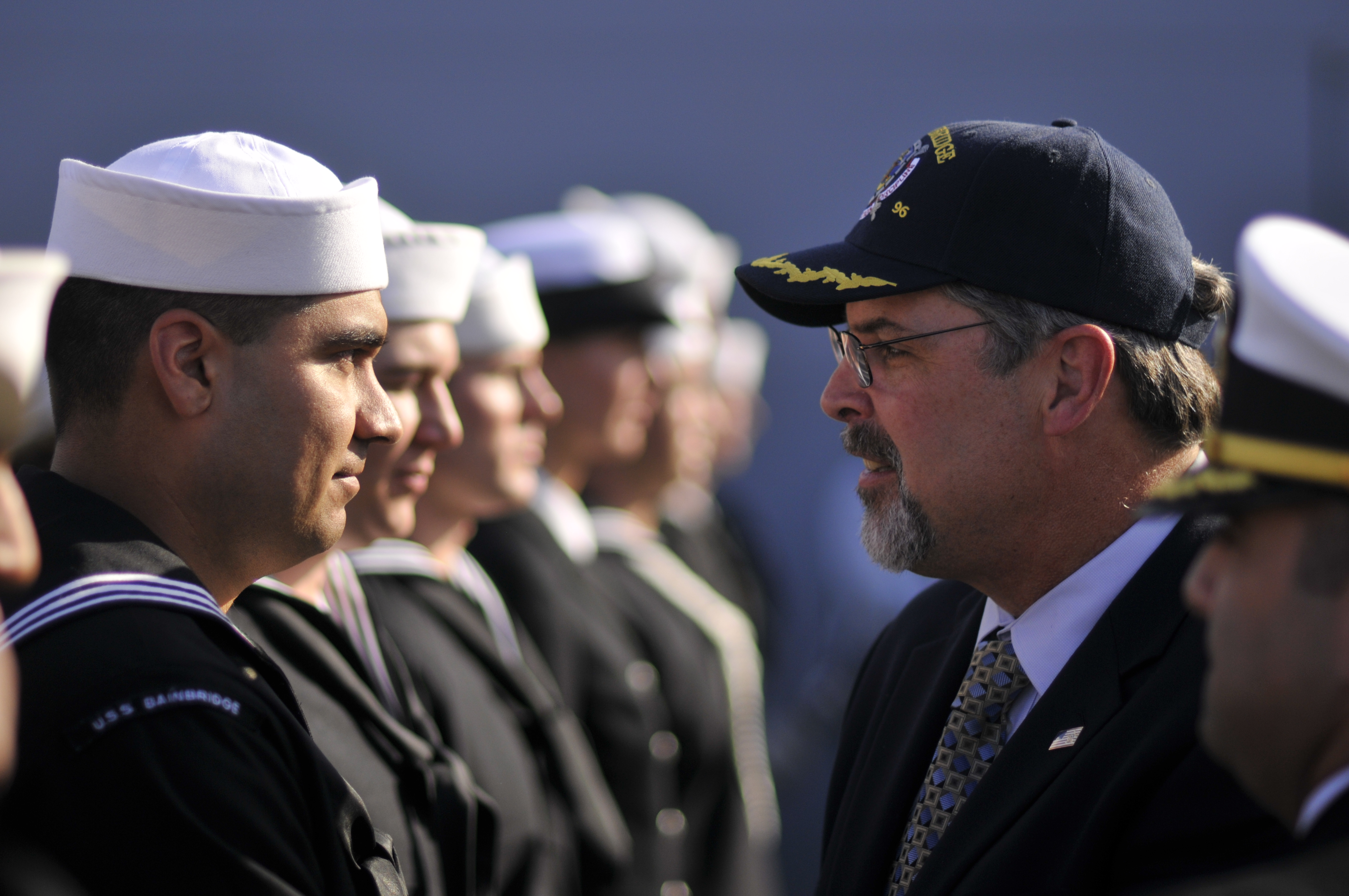 NORFOLK (Nov. 19, 2009) Capt. Richard Phillips, former Captain of the container ship MV Maersk Alabama, publicly thanks Sailors assigned to the guided-missile destroyer USS Bainbridge (DDG 96) for his dramatic rescue at sea. On Easter Sunday, April 12, 2009, Navy SEALs positioned on the fantail of the Bainbridge opened fire and killed three of the pirates who were holding Phillips hostage. Phillips was later rescued by the crew of the Bainbridge. (U.S. Navy photo by Mass Communication Specialist 3rd Class David Danals/Released)